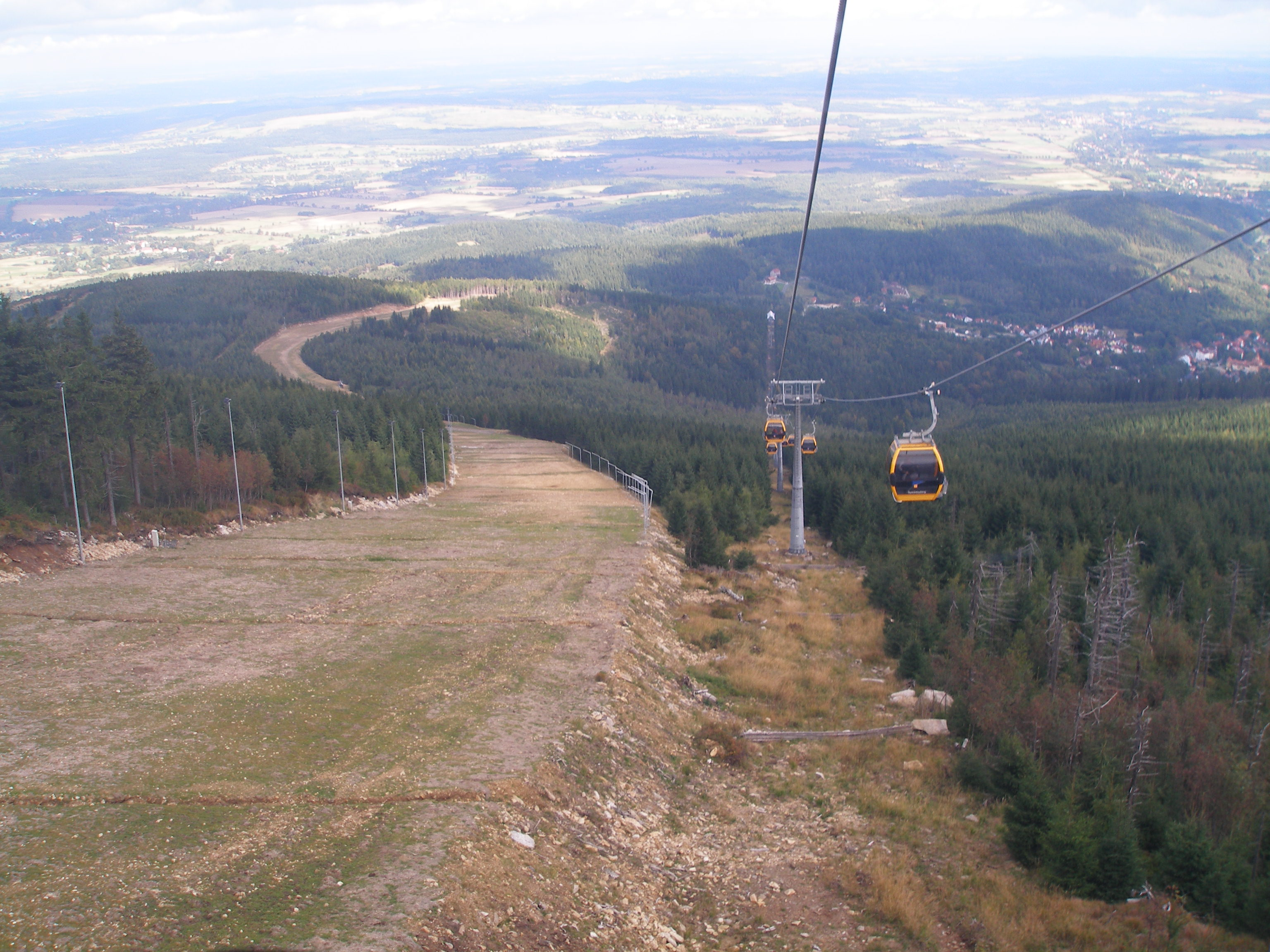 Downhill form Stóg Izerski, Poland.